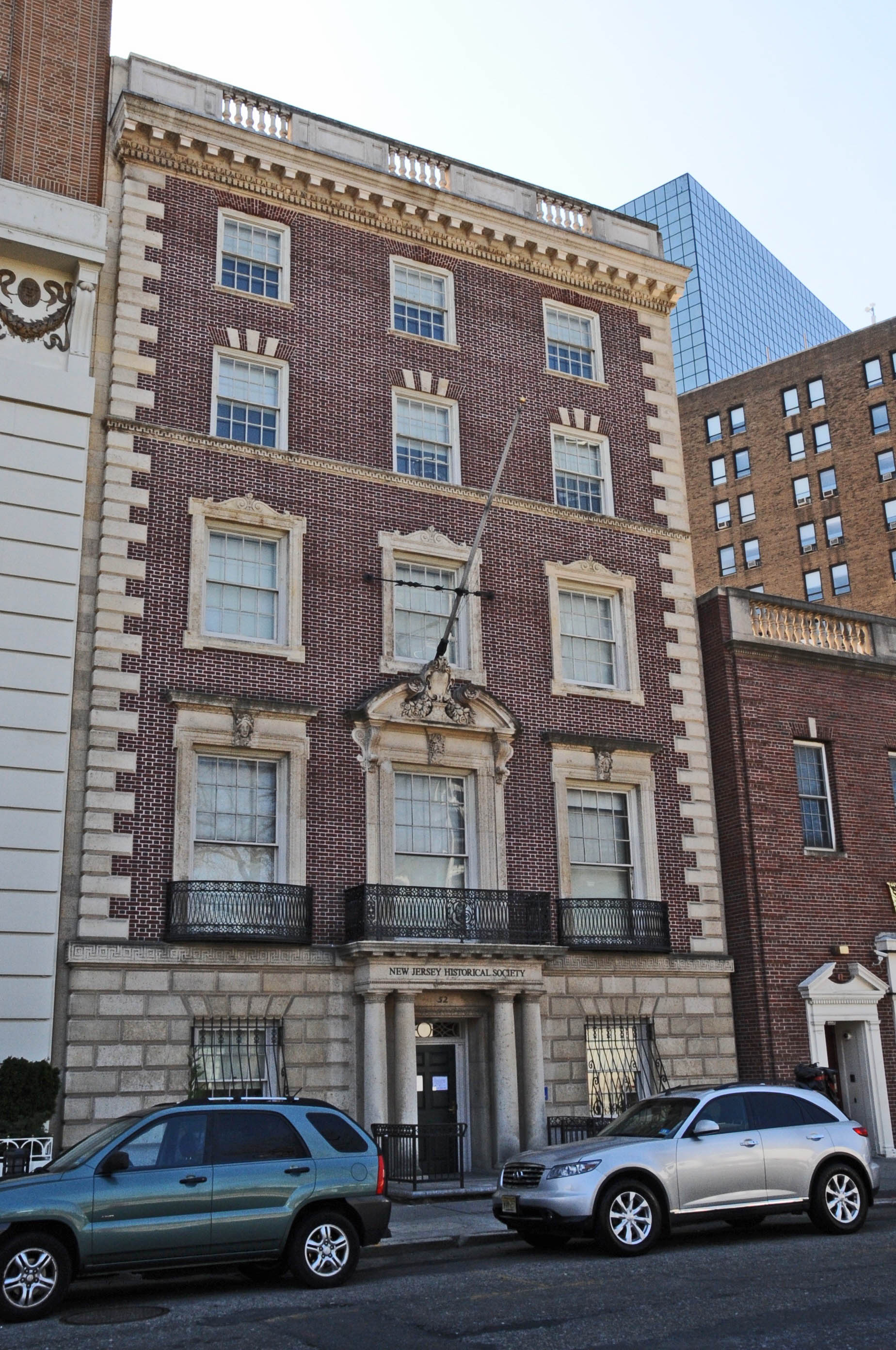 CLUB BUILT IN 1926 AS A GATHERING PLACE FOR NEWARK'S BUSINESS LEADERS. DESIGNED BY THE NEWARK FIRM OF GUILBERT AND BETELLE, THIS BUILDING EXEMPLIFIES THE HIGH QUALITY OF EARLY TWENTIETH CENTURY COMMERCIAL AND CIVIC ARCHITECTURE. IT IS NOW THE HOME OF THE NEW JERSEY HISTORICAL SOCIETY WHO MOVED HERE TO 52 PARK PLACE IN 1997 FROM SEVERAL PREVIOUS LOCATIONS.